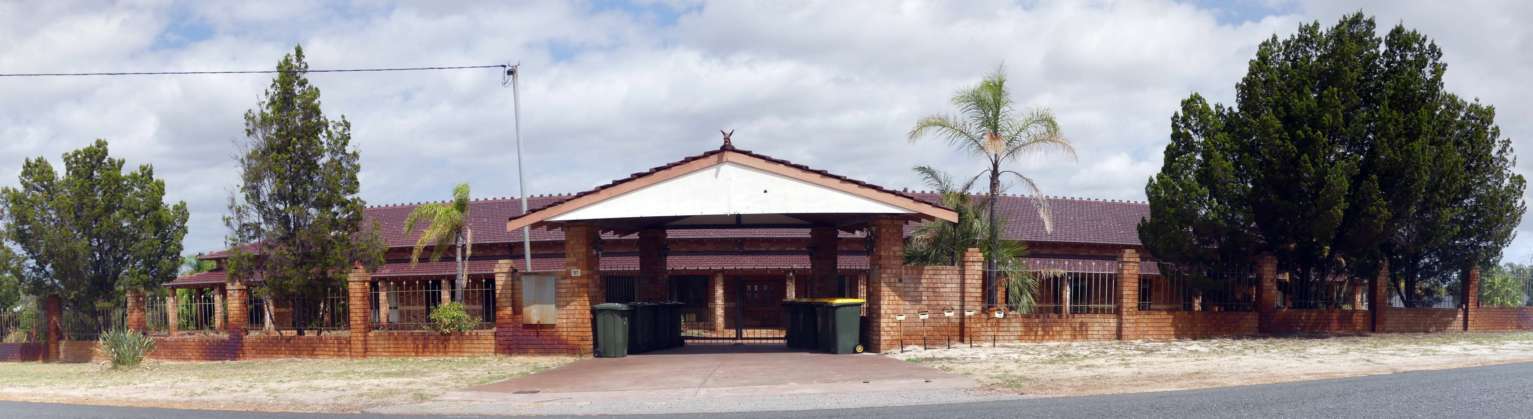 Front view of Shalom House Perth Western Australia